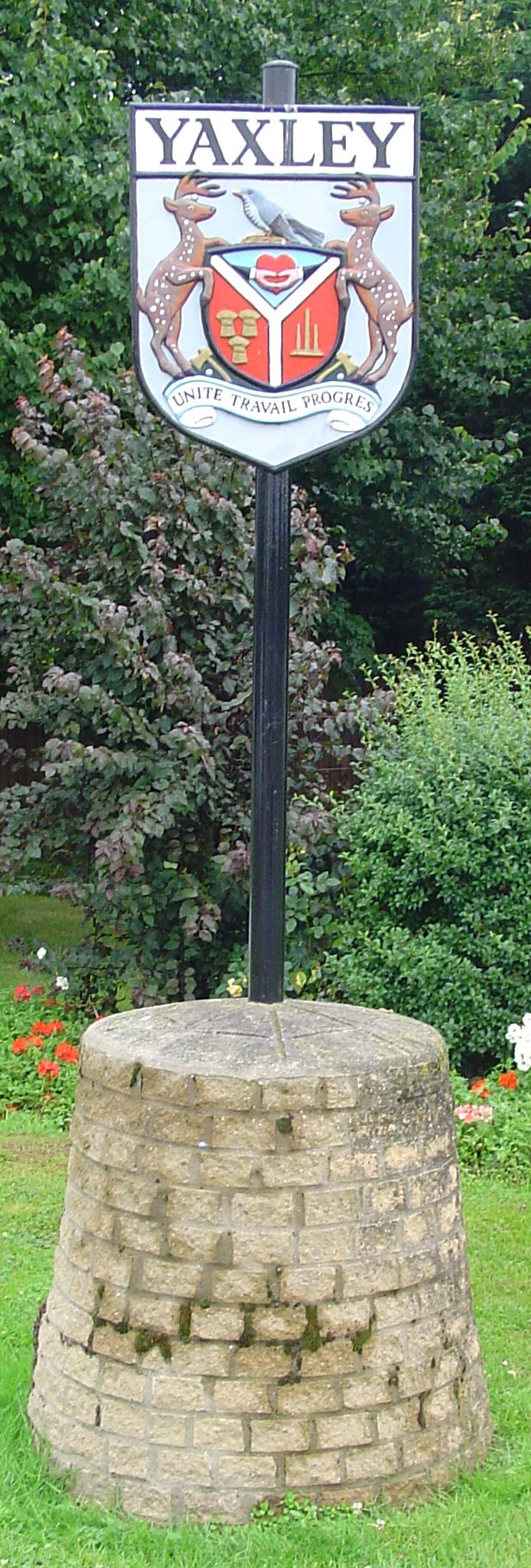 Signpost in Yaxley